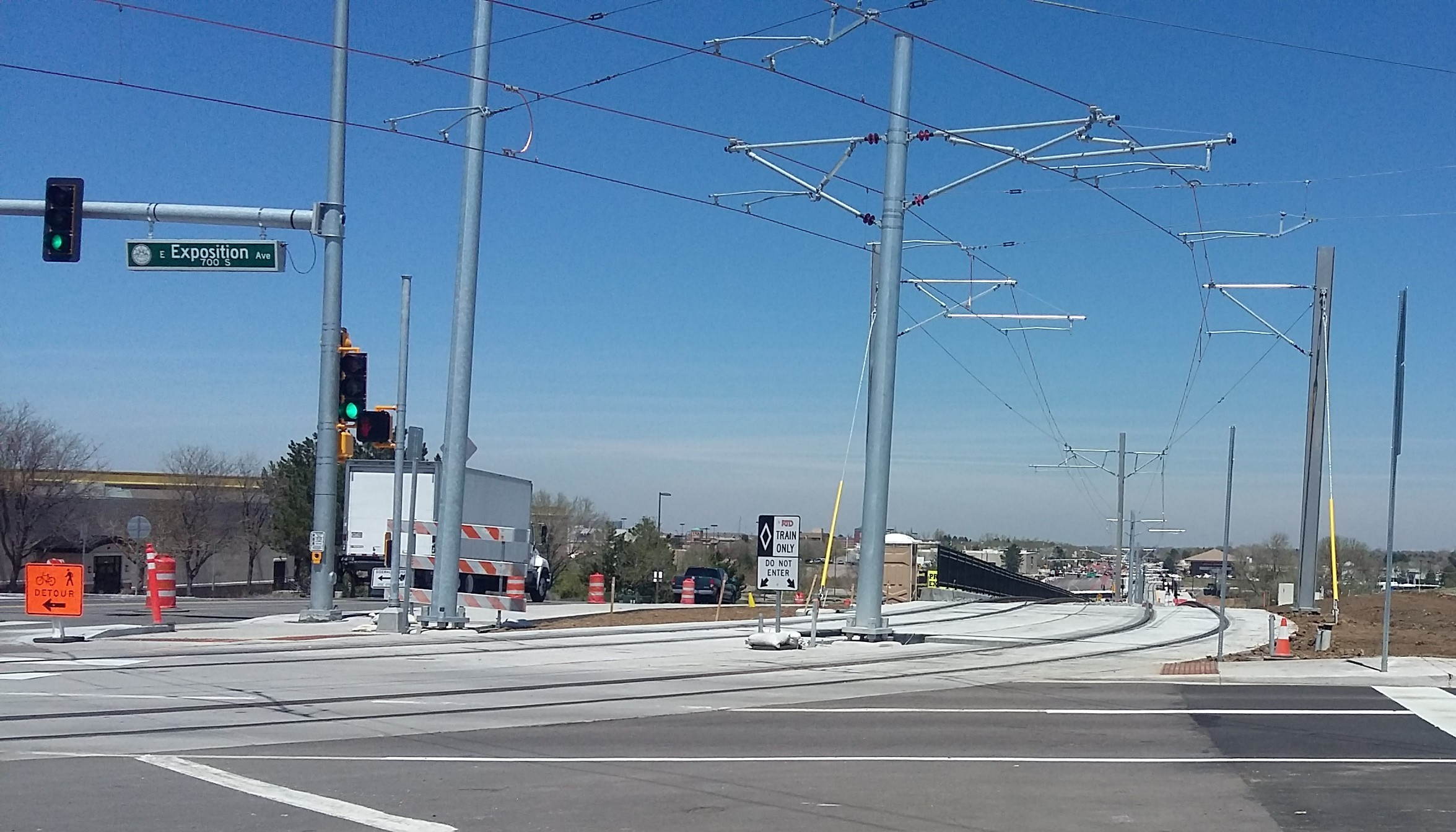 Future R Line, Exposition & Sable, looking north, Aurora, Colorado